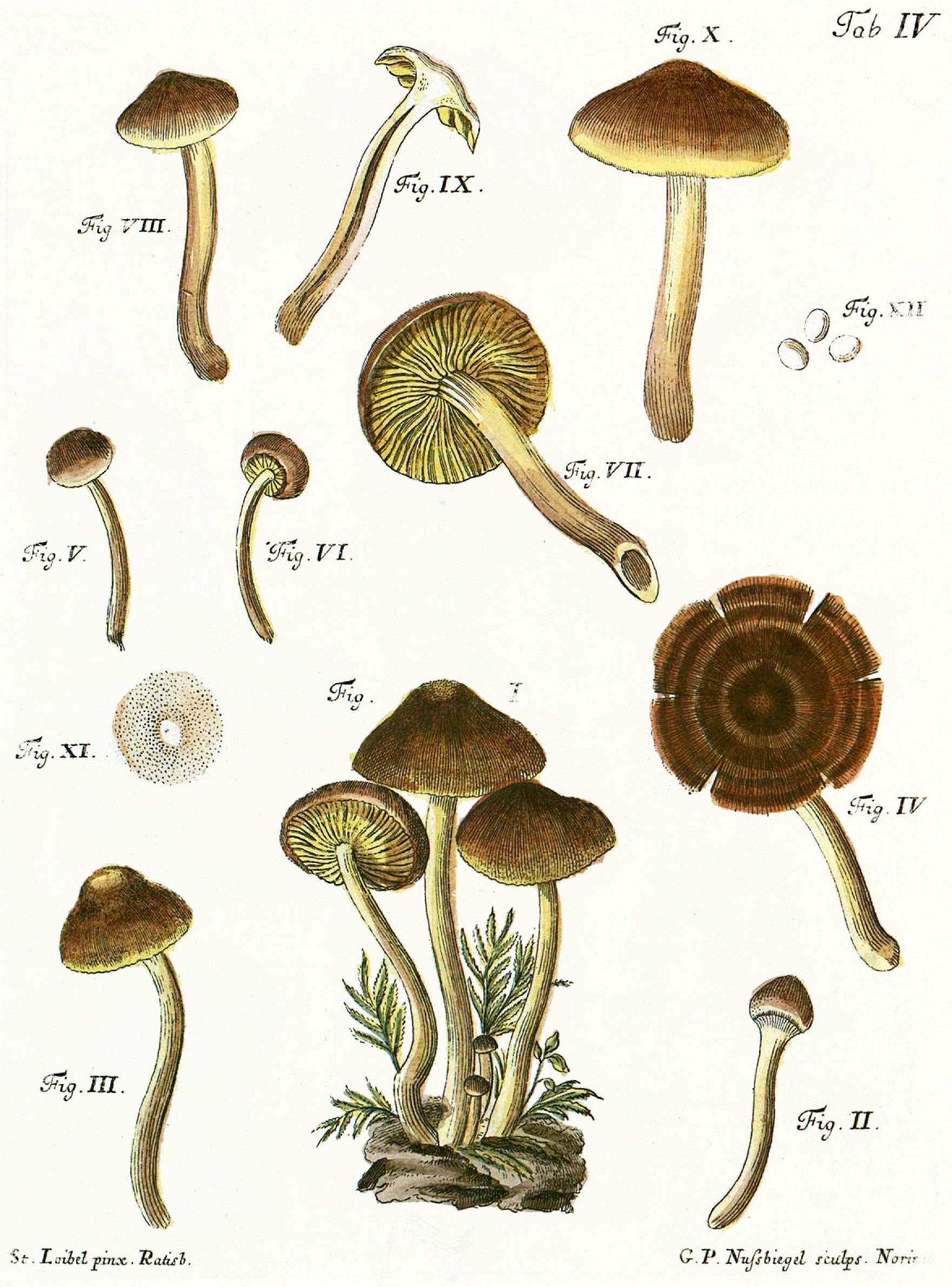 Explanation of the 2nd plate by the author J.C. Schäffer (in German und Latin) The plate shows Agaricus croceus Schaeff., Fungorum qui in Bavaria et Palatinatu circa Ratisbonam nascuntur icones, Vol 4: Seite 3 (1774). According to the right scientific name is now Cortinarius croceus (Schaeff.) Gray